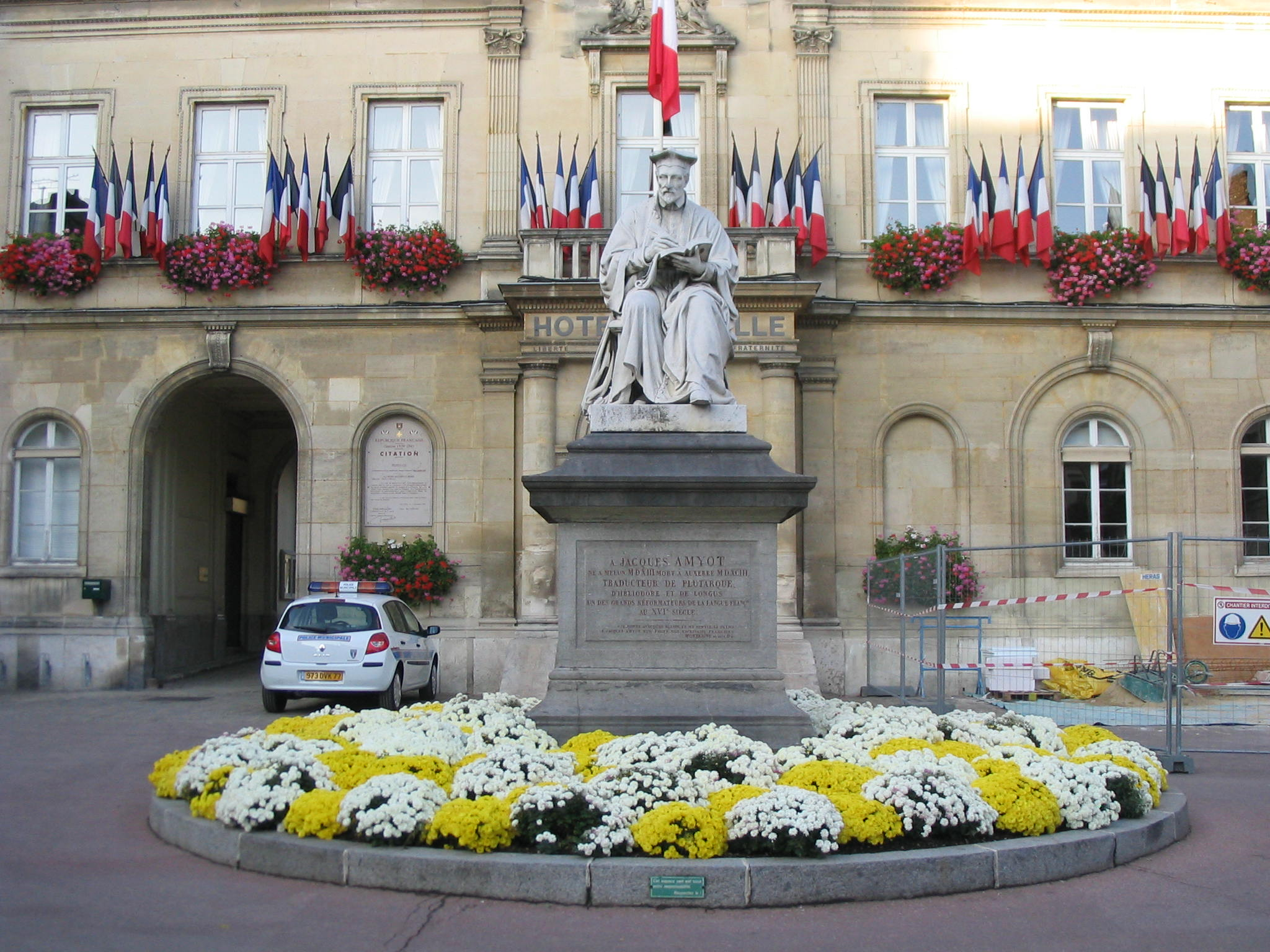 Statue of Jacques Amyot in the courtyard of the Town Hall in Melun, his hometown.